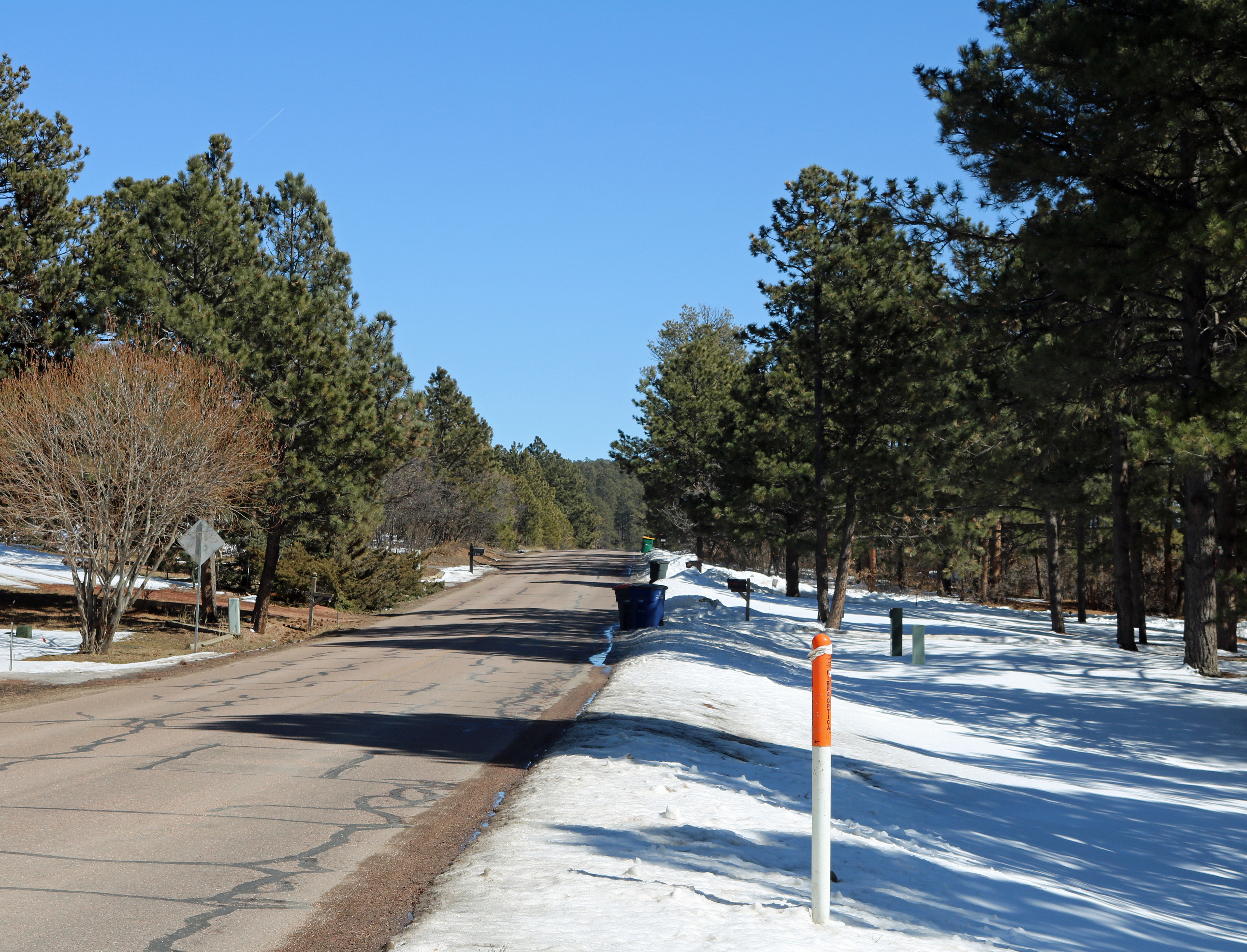 A view of Woodmoor, Colorado. The view is looking east along Woodmoor Drive from its intersection with Doewood Drive. This is a residential area of the community, which is heavily forested.